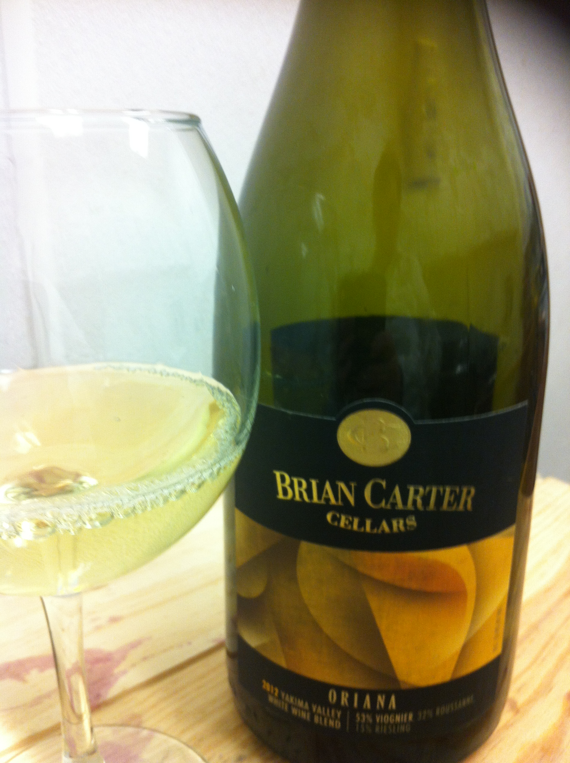 A white "Rhone style blend" made predominantly of Viognier from the Washington State wine region of the Columbia Valley.